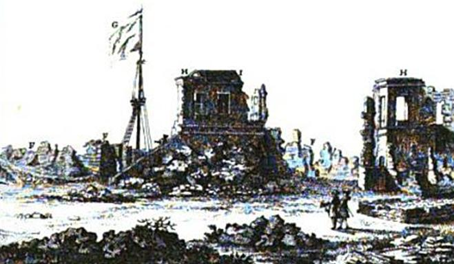 Detail of print "The ruins of Pondicherry 1769". The ruin in center served as the base for Le Gentils observatory during the transit of venus 1769